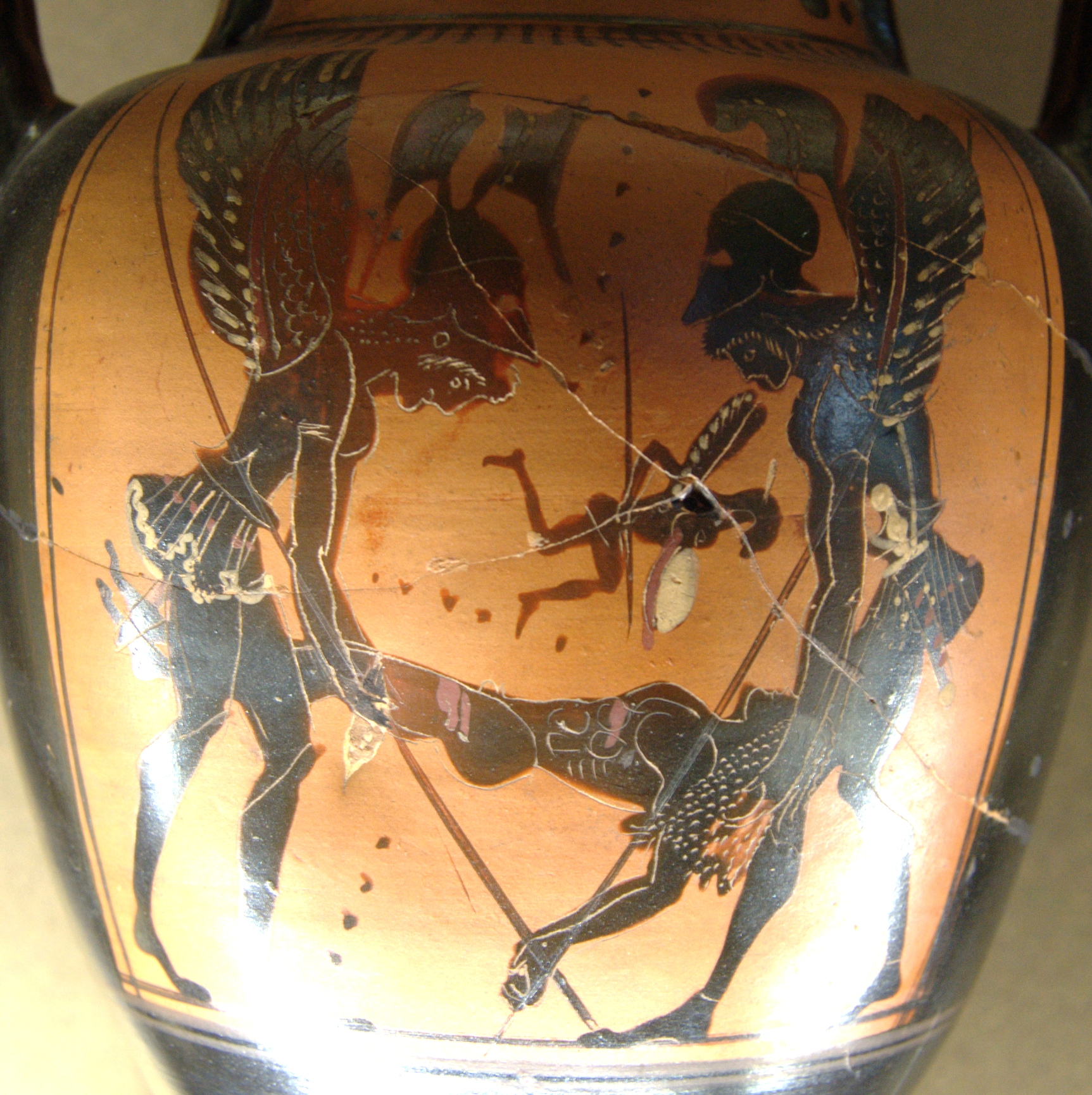 Death of Sarpedon. Side A from an Attic black-figured neck-amphora, 500–490 BC. From Italy.